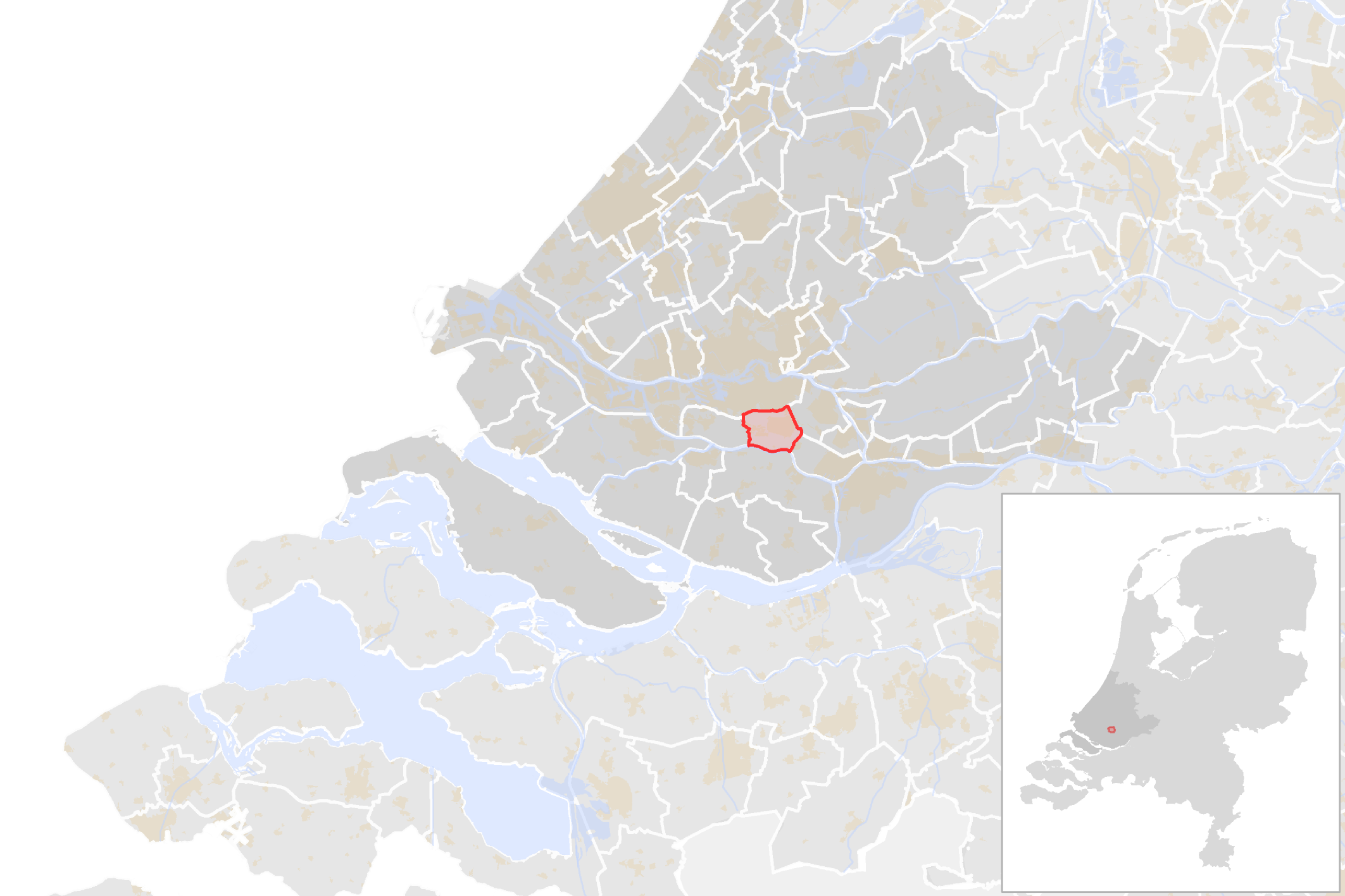 Locator map showing municipality boundary of one of the 390 Dutch municipalities (as of 2016)